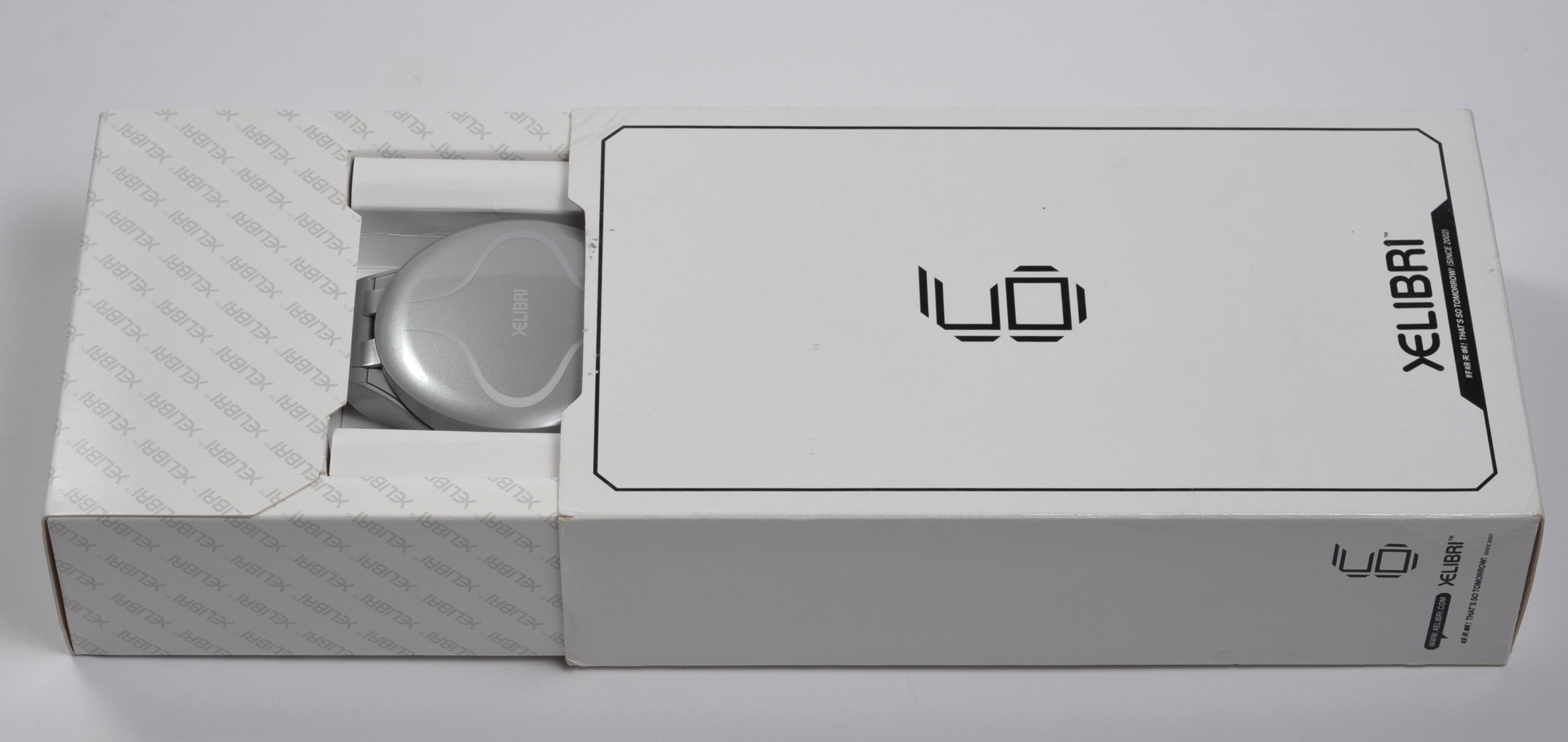 Packaging for the Xelibri 6 Mobile Phone